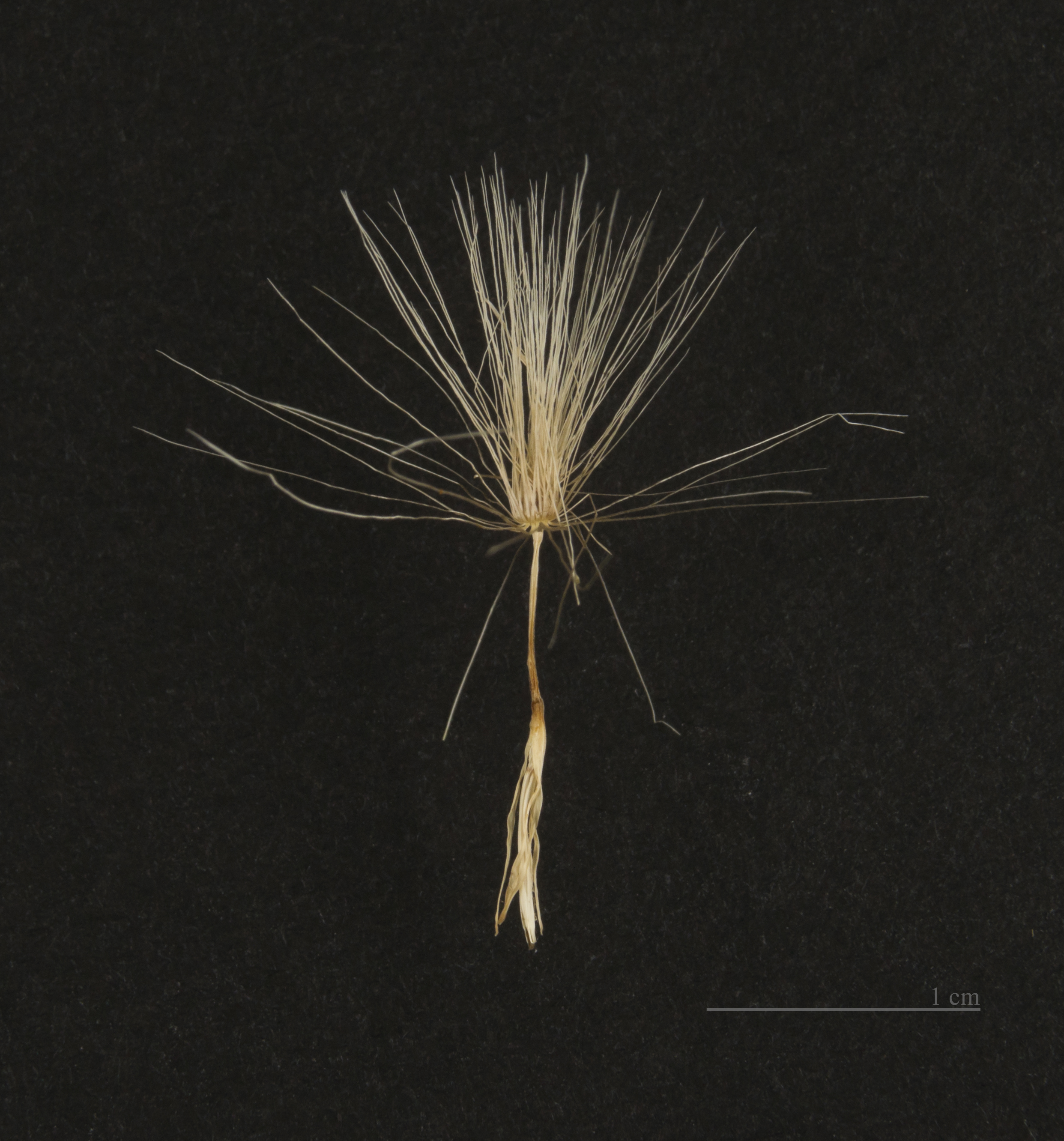 Carduus carlinoides, seed